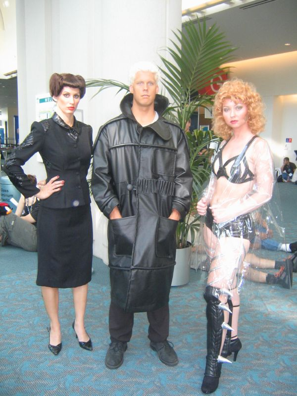 Replicants (Blade Runner). Photo by Pablo Hidalgo at the Comic-Con 2007.